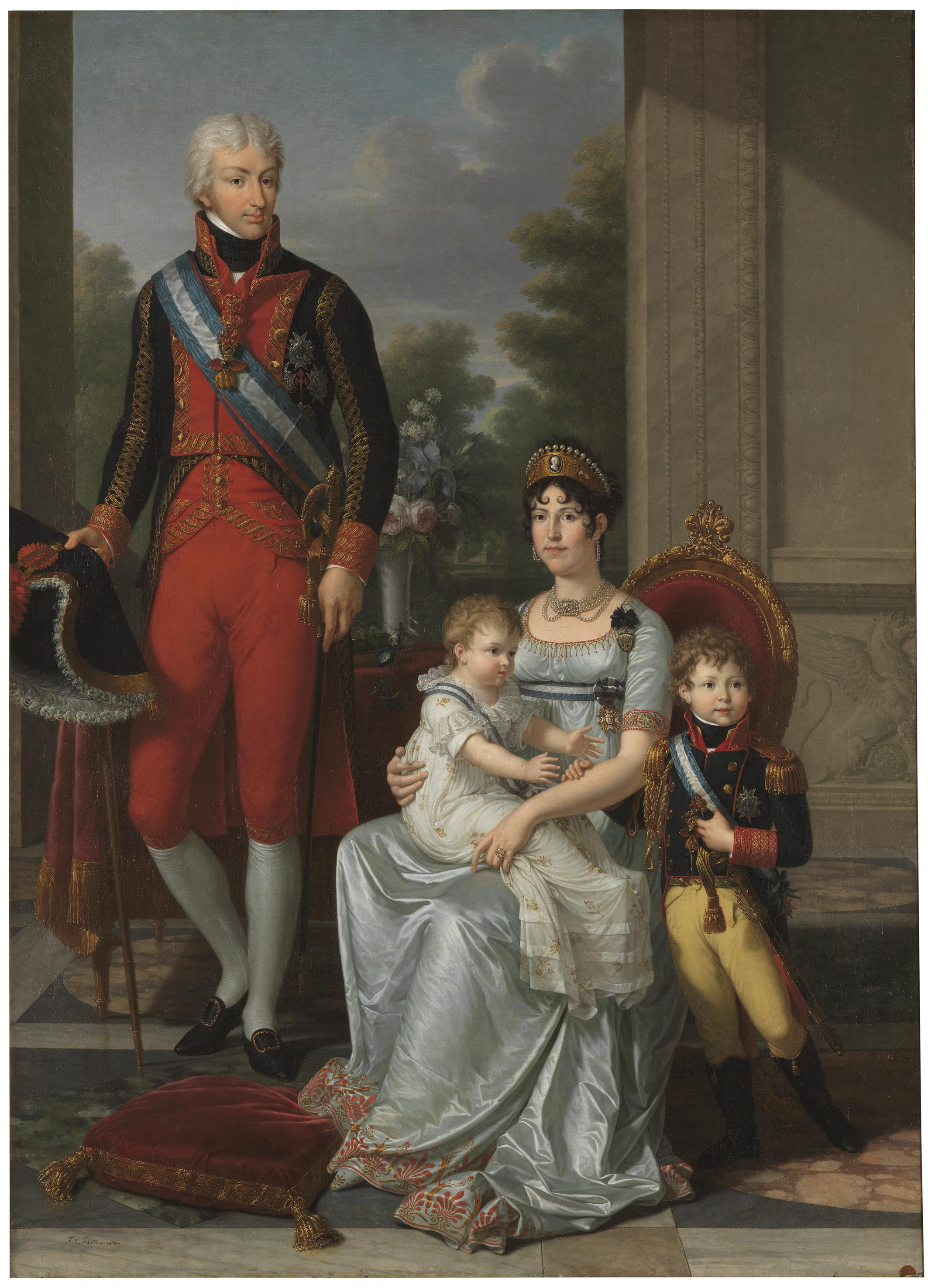 Portrait of Louis of Etruria's family, her wife Queen Maria Luisa (née María Luisa of Spain) and their two children: Charles Louis (1799–1883) and Maria Luisa Carlota, Crown Princess of Saxony (1802–1857).